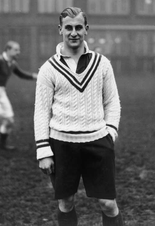 Prince Alexander Obolensky, English rugby union player. This photo has been taken while he was alive, before the 29th of March 1940.